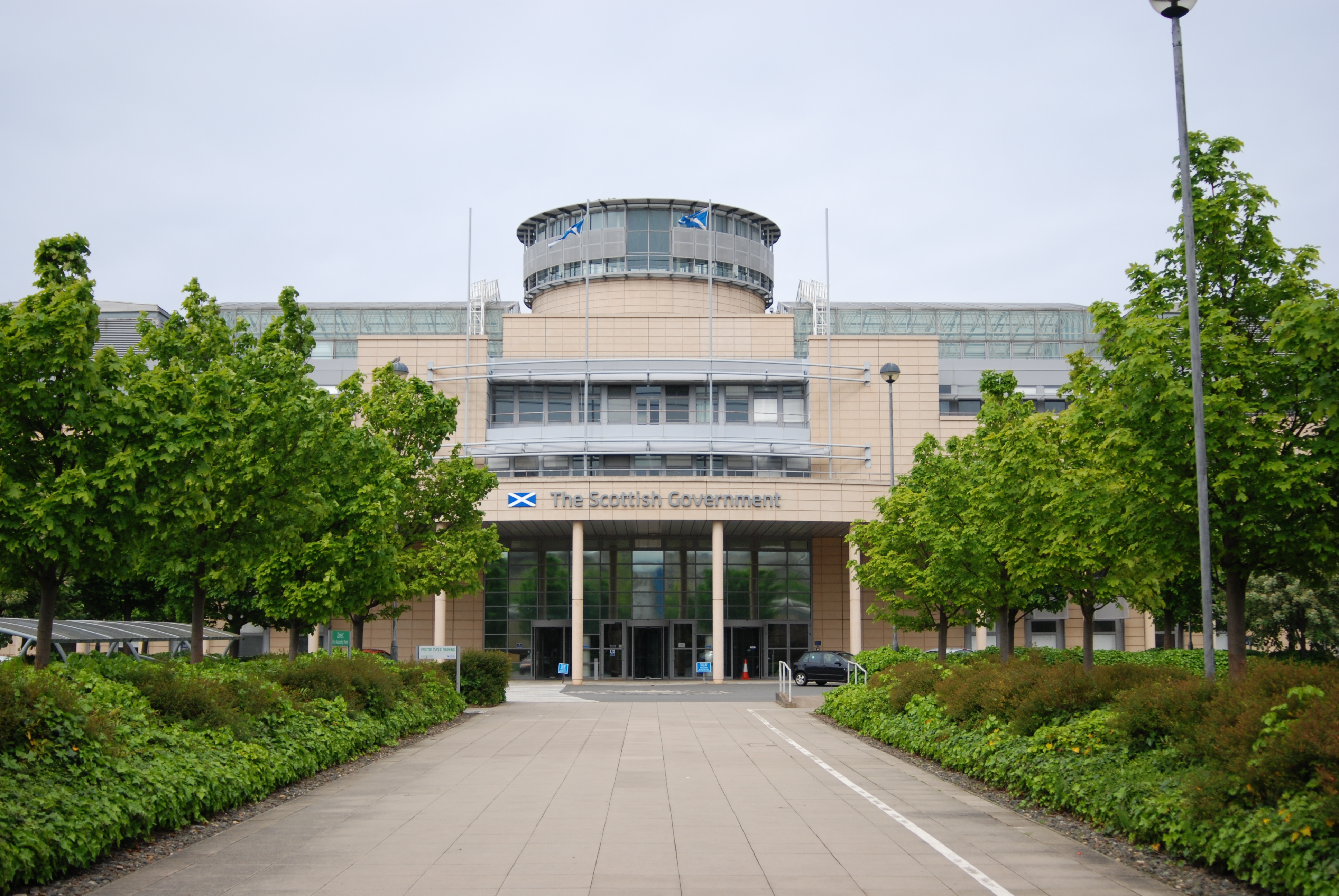 The Scottish Government